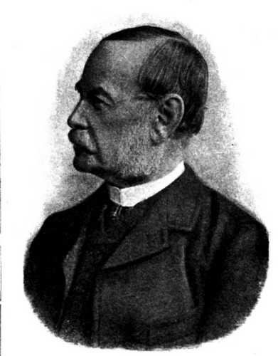 Eduard Heinrich Henoch (1820-1910), a german paediatrician.